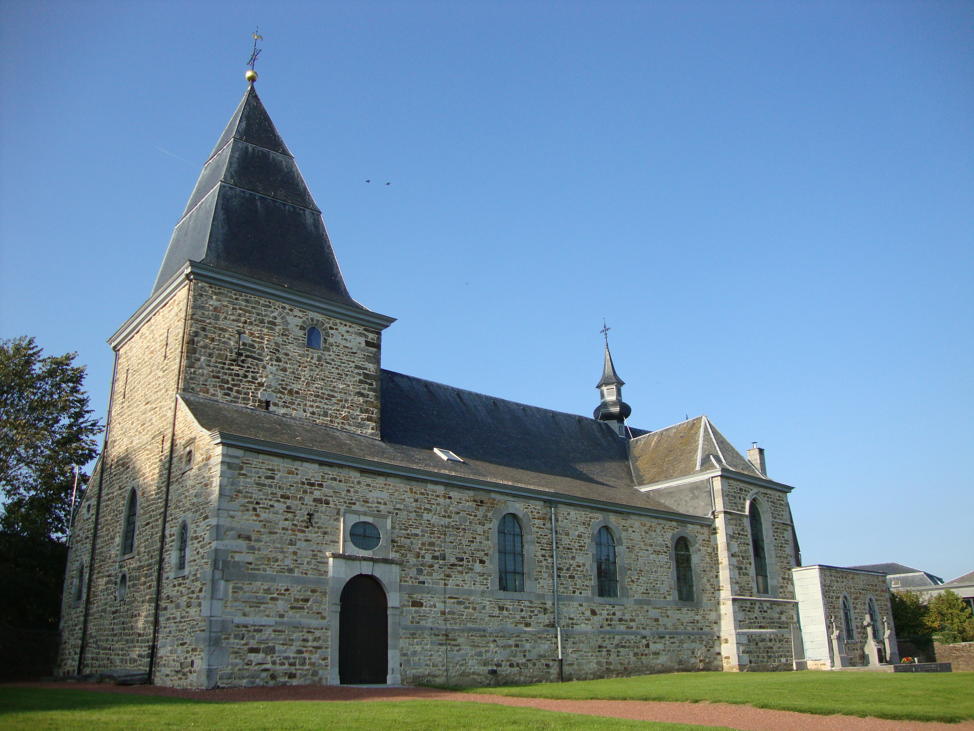 Church of Saint George in Henri-Chapelle